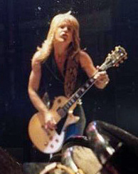 Randy Rhoads Sophia Gardens Cardiff 1980